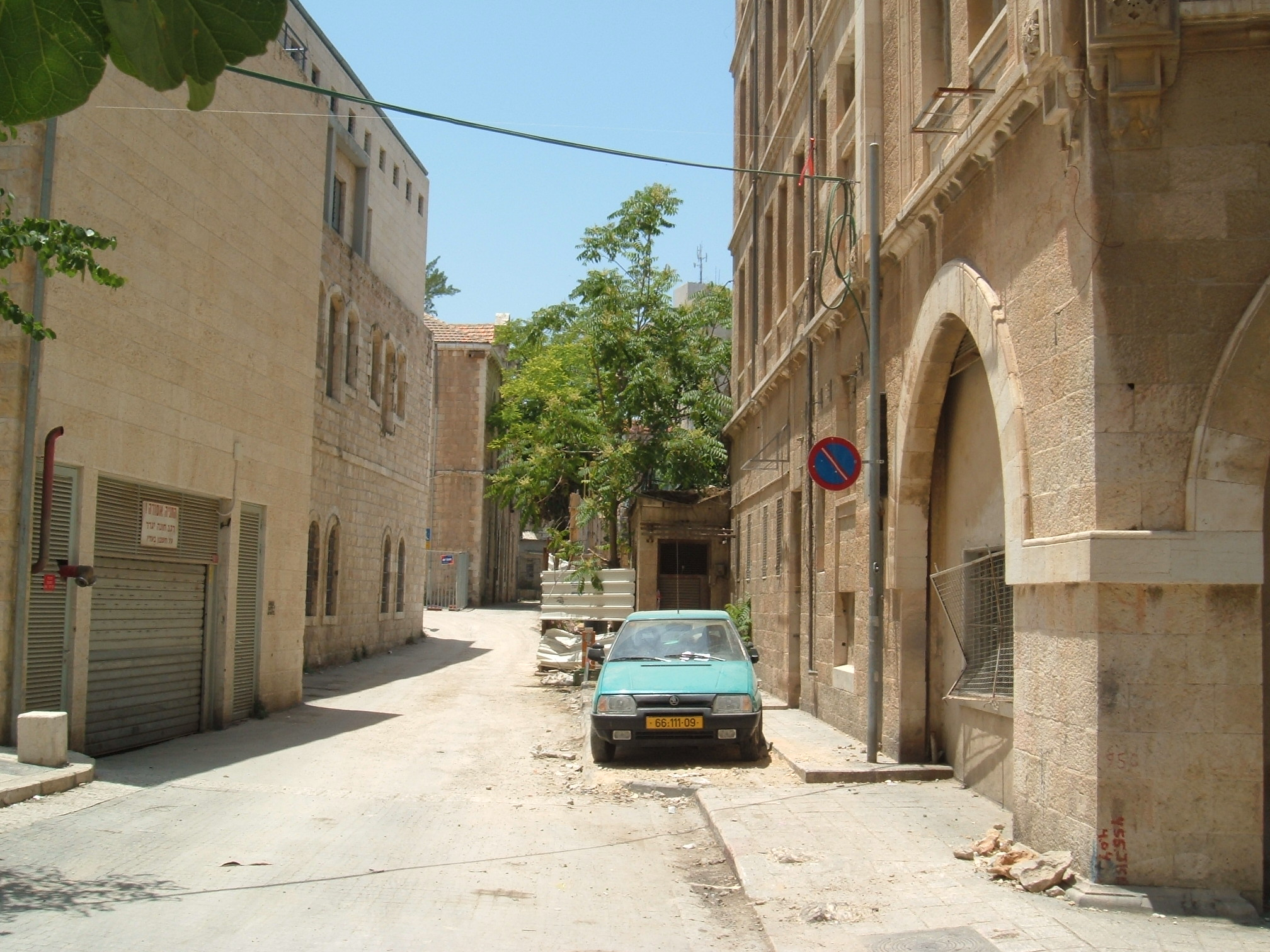 Ben Shimon street in Machane Yisrael neighborhood in Jerusalem. The building at the right is the Palace Hotel seen from the back side.